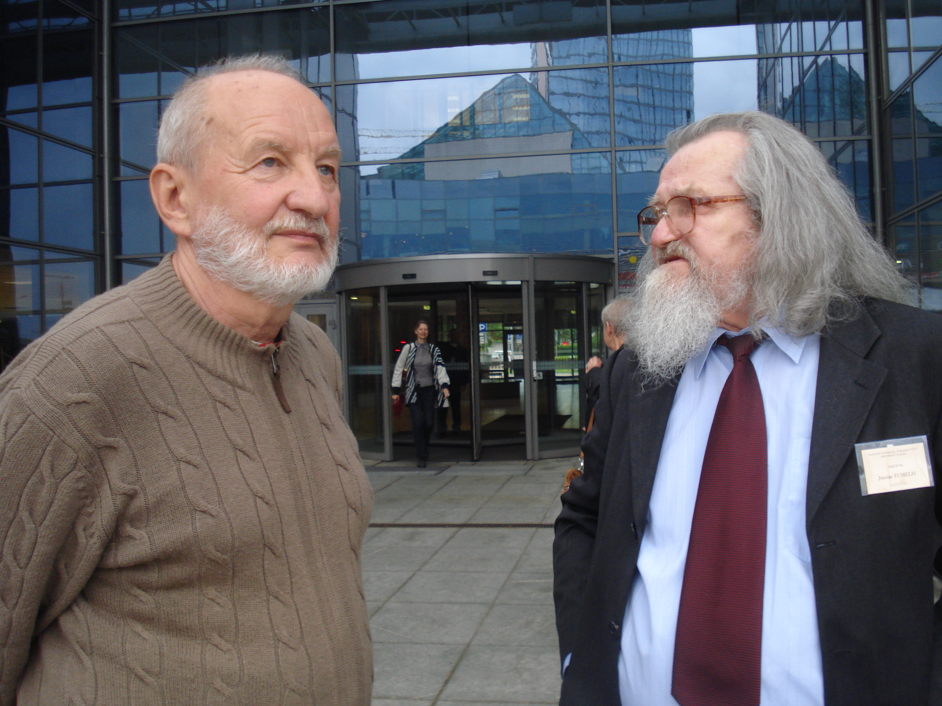 Kęstutis Nastopka (born 1940), Lithuanian literary critic and translator, and Juozas Tumelis